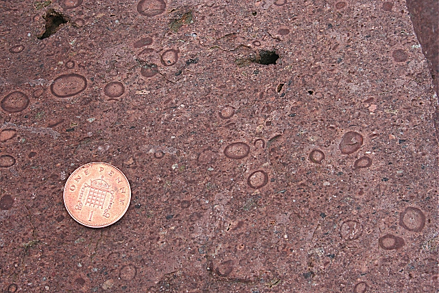 Accretionary Lapilli These little concentric rings are cross-sections of accretionary lapilli. They are formed when ash particles erupted from a volcano in moist clouds, and they accrete like hailstones into spheres. There is a thicker layer of these here than at Stoer, suggesting that the source which produced them was closer to here than to Stoer. It has recently been suggested that they may have been produced in a meteor strike rather than a volcanic eruption, but there is no consensus about this idea.